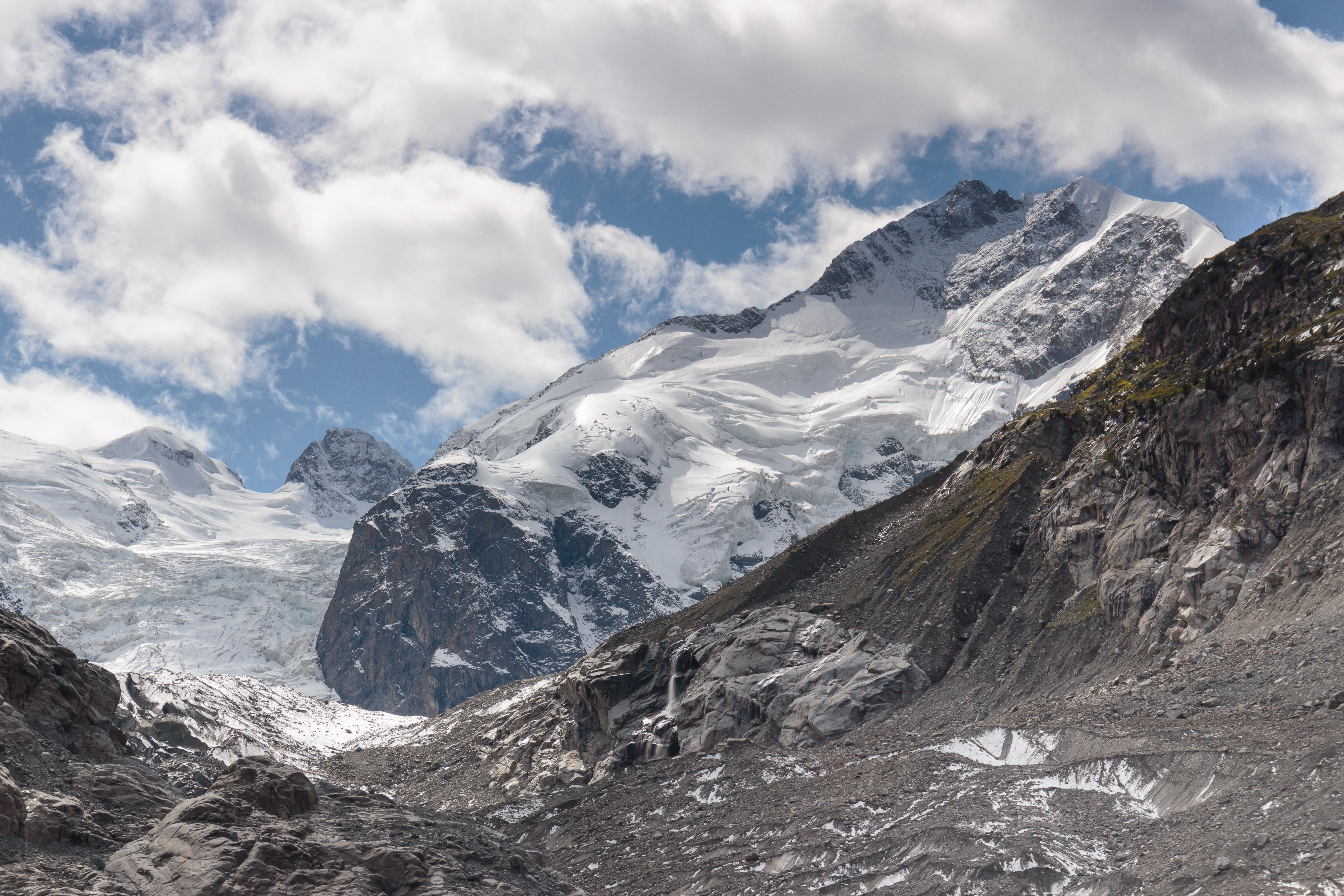 Mountain path to the tongue of the Morteratsch glacier View of the impressive Morteratsch glacier.